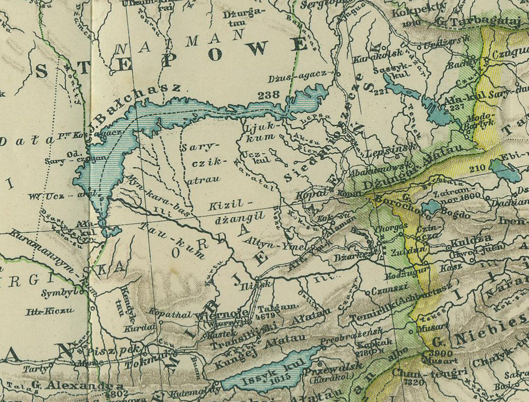 A part of the Central-Asian Russia map (1903), centered around lake Balkhash